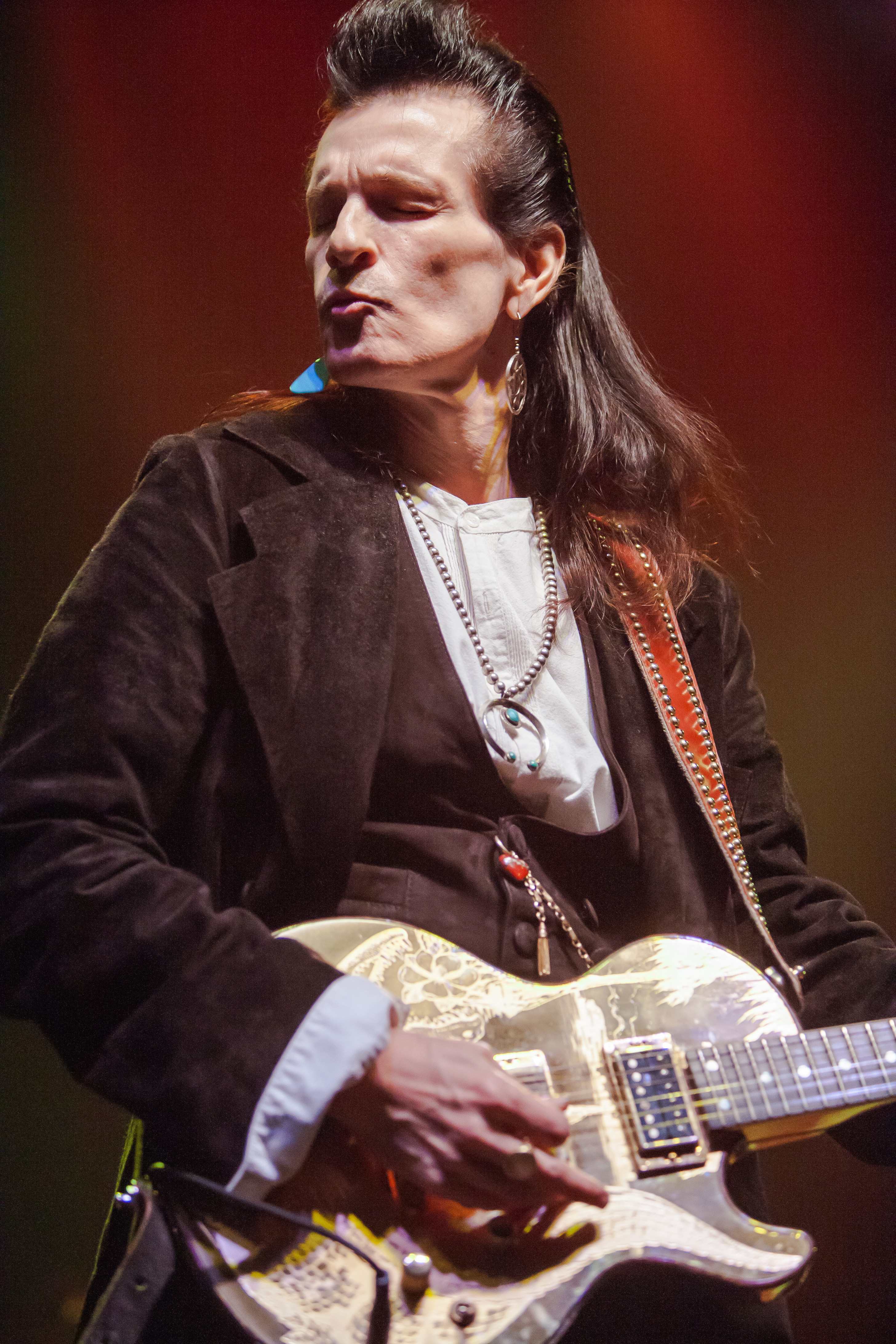 Willy DeVille live at E-Werk, Cologne, Germany